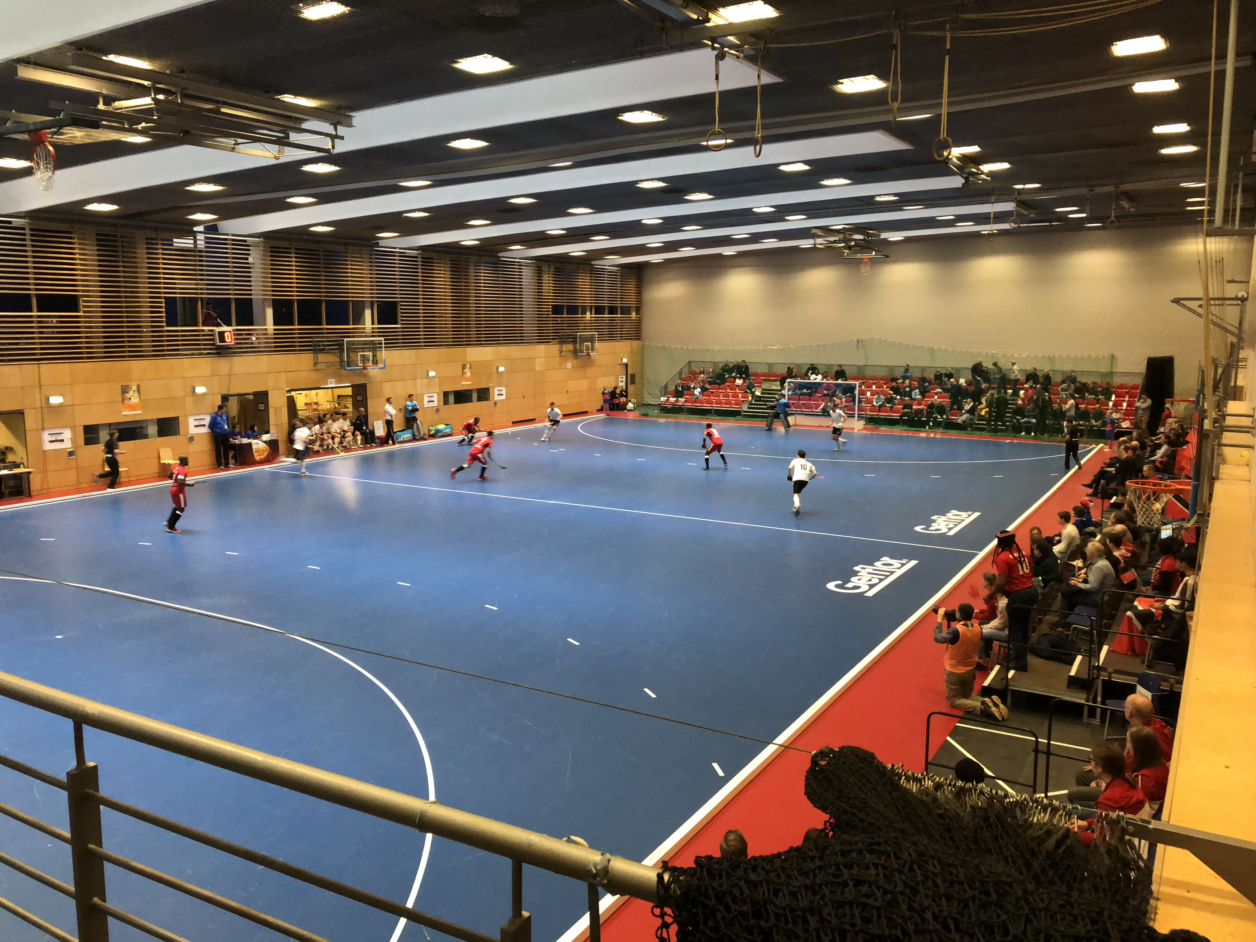 The 2018 Indoor Hockey World Cup was the fifth edition of this tournament and played from 7 to 11 February 2018 in Berlin, Max-Schmeling-Halle.